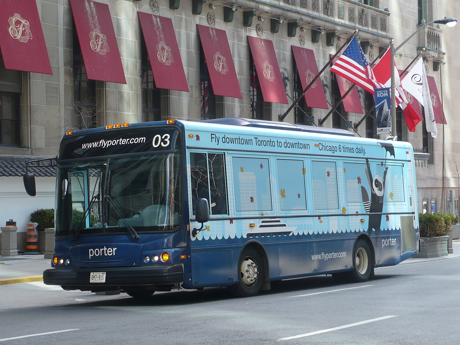 Porter Airlines shuttle bus at the Royal York hotel in downtown Toronto